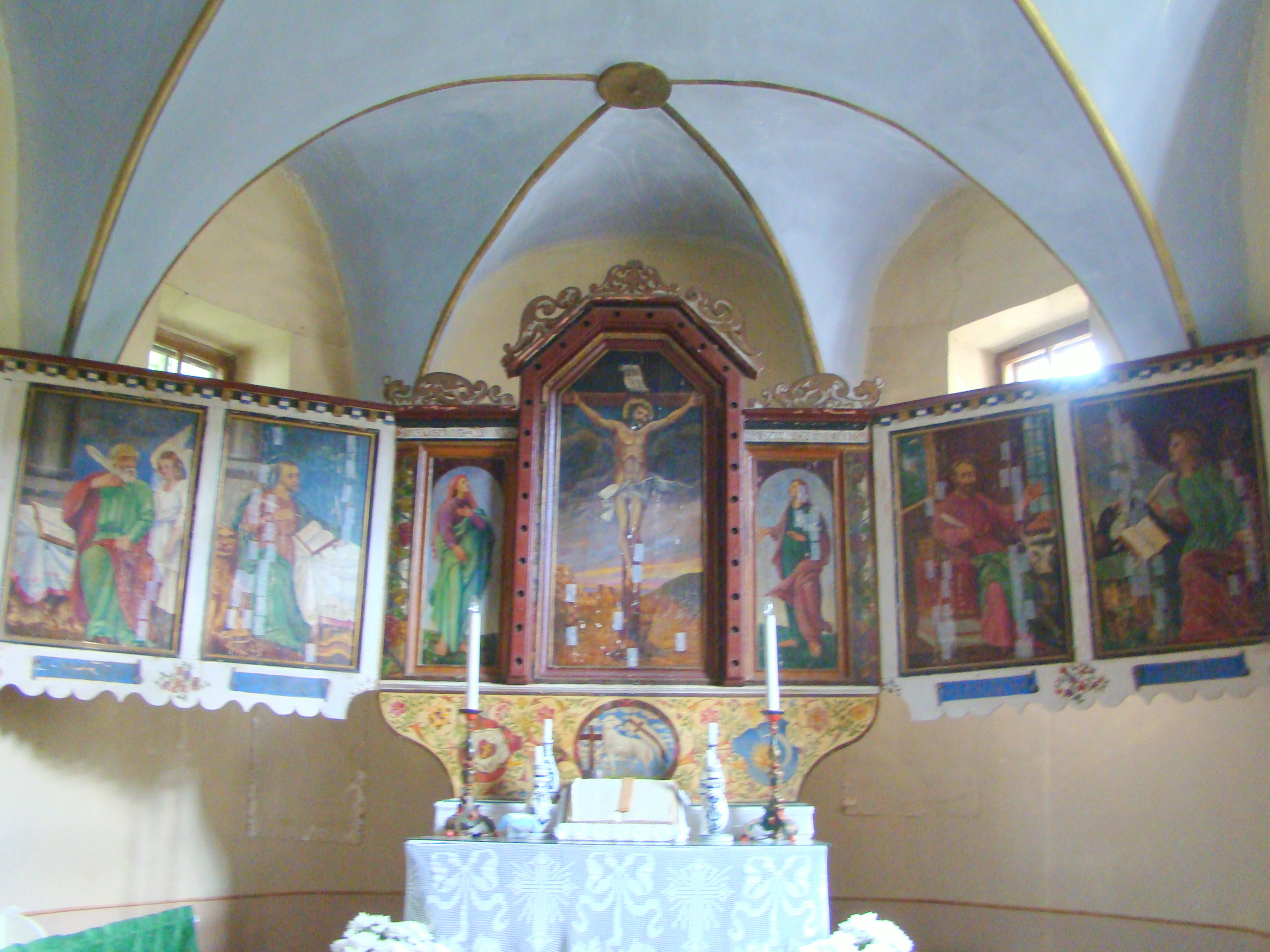 Lutheran church in Satu Nou, Brașov County, Romania